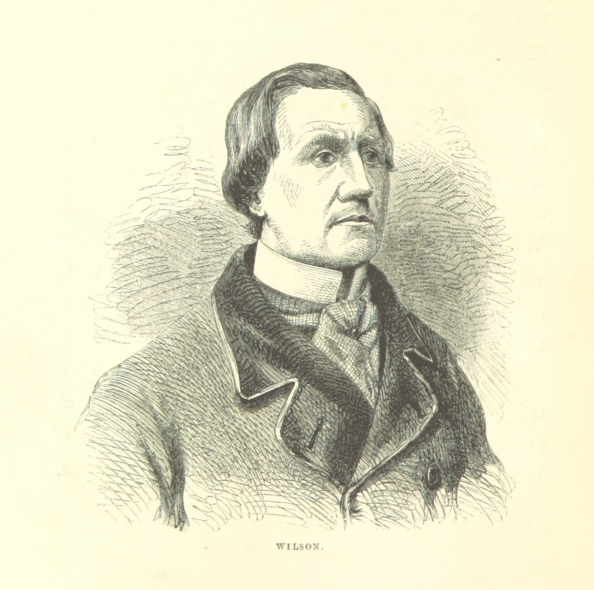 Image of "William Wilson", Valet, Gardener, Cape Colonist taken from: Title: "[Letters from High Latitudes; being some account of a voyage in the schooner yacht “Foam” ... to Iceland, Jan Mayen, & Spitzbergen, in 1856. [With plates and maps. " Author: BLACKWOOD, Frederick Temple Hamilton Temple - Marquis of Dufferin and Ava Shelfmark: "British Library HMNTS 10281.c.25." Page: 64 Place of Publishing: London Date of Publishing: 1857 Publisher: John Murray Edition: Third edition. Issuance: monographic Identifier: 000367731 Explore: Find this item in the British Library catalogue, 'Explore'. Download the PDF for this book (volume: 0) Image found on book scan 64 (NB not necessarily a page number) Download the OCR-derived text for this volume: (plain text) or (json) Click here to see all the illustrations in this book and click here to browse other illustrations published in books in the same year. Order a higher quality version from here. This file is from the Mechanical Curator collection, a set of over 1 million images scanned from out-of-copyright books and released to Flickr Commons by the British Library. Please add the Flickr page URL for the image Please add the British Library system number for the book This tag does not indicate the copyright status of the attached work. A normal copyright tag is still required. See Commons:Licensing.